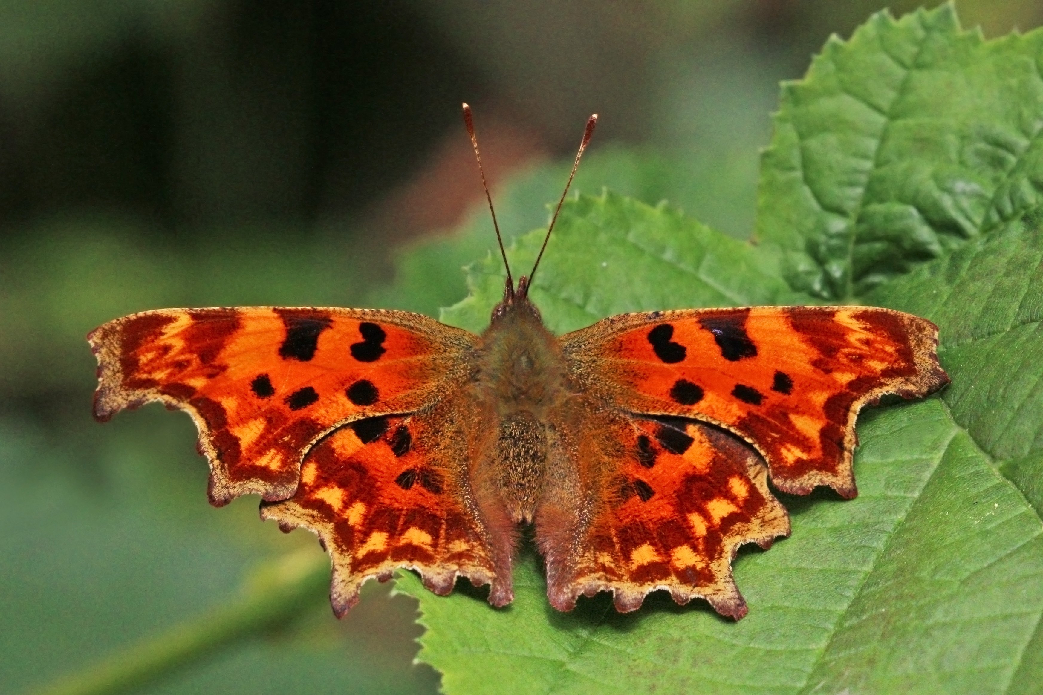 Comma butterfly (Polygonia c-album), form hutchinsoni, Fermyn Woods, Northamptonshire